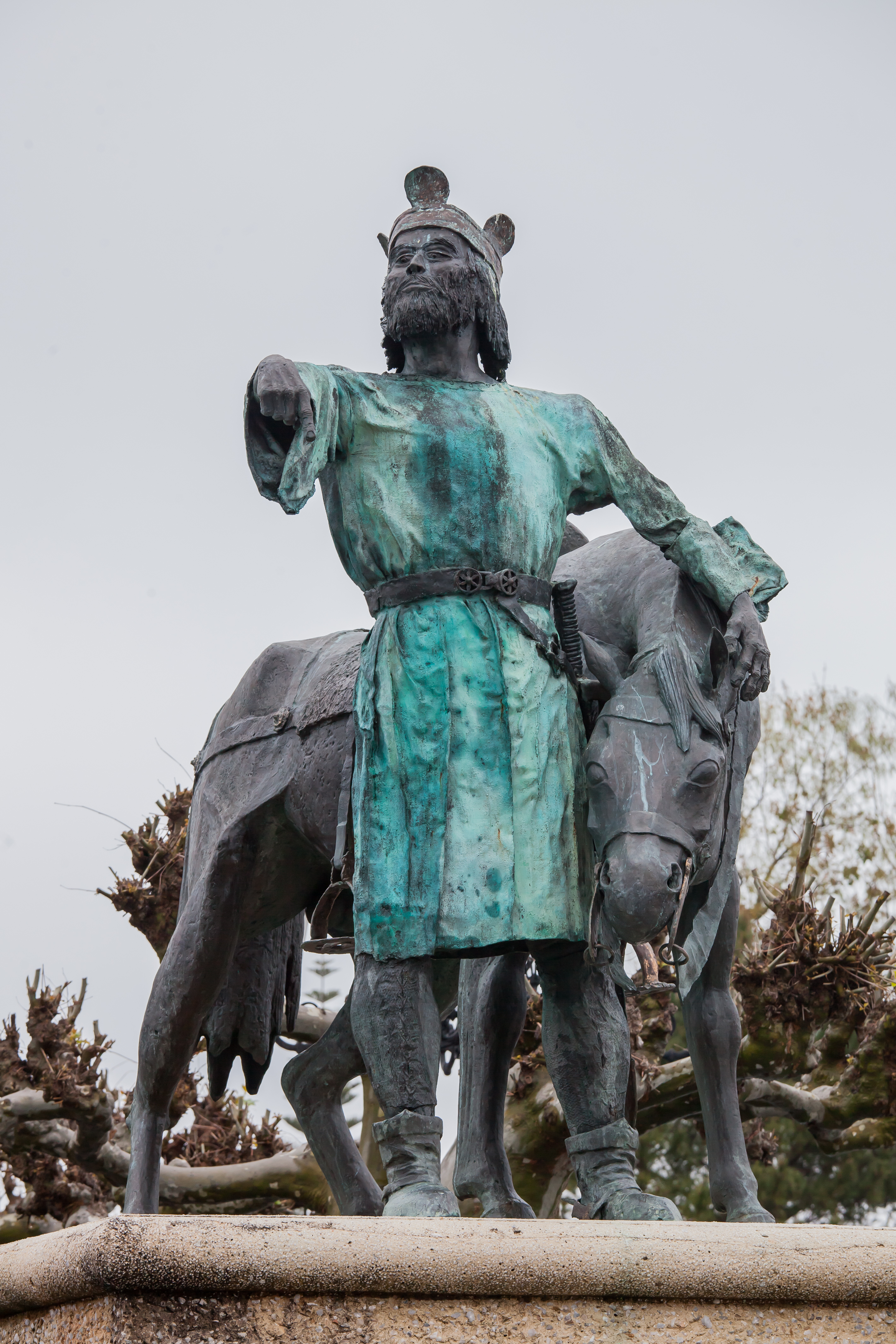 Statue of king Alfonso IX in Baiona, Galicia, Spain.